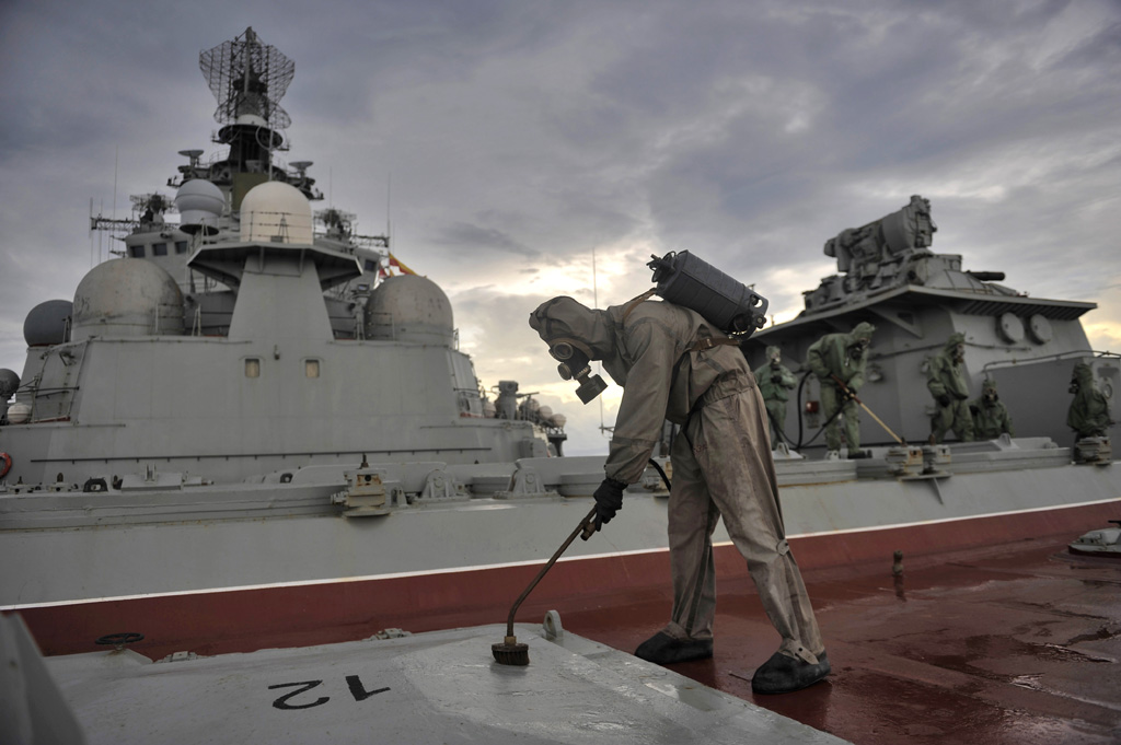 “The nuclear-powered cruiser "Peter the Great" on its long-distance expedition”. Exercises on radiological, chemical and biological protection, the nuclear-powered cruiser "Peter the Great".